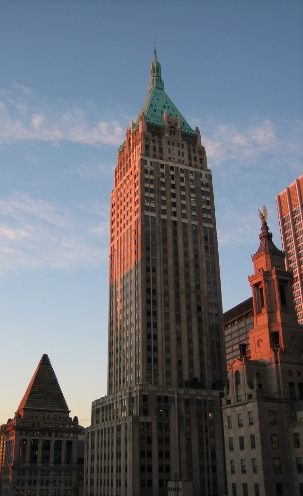 Image of 40 Wall Street in New York City.